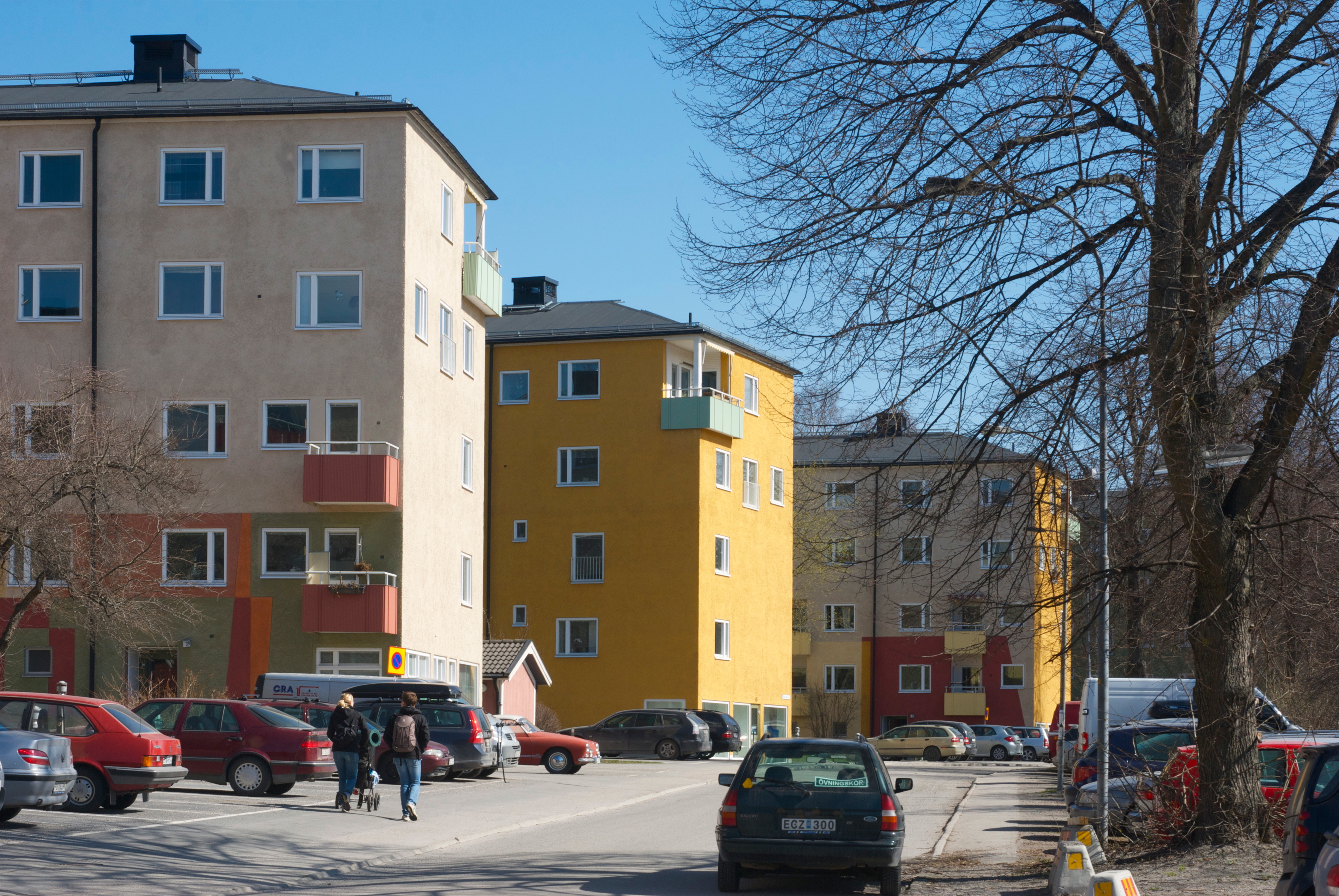 Sickla strand. Built 1947-48. Architects: Tore and Erik ahlsén.